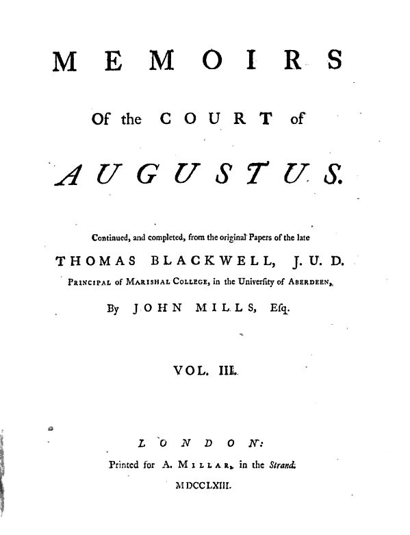 Memoirs of the Court of Augustus, Vol. 3, title page 1763